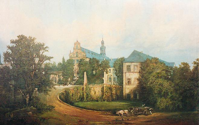 Ölbild von Schloss Ringelheim painted by Graf Georg von der Decken